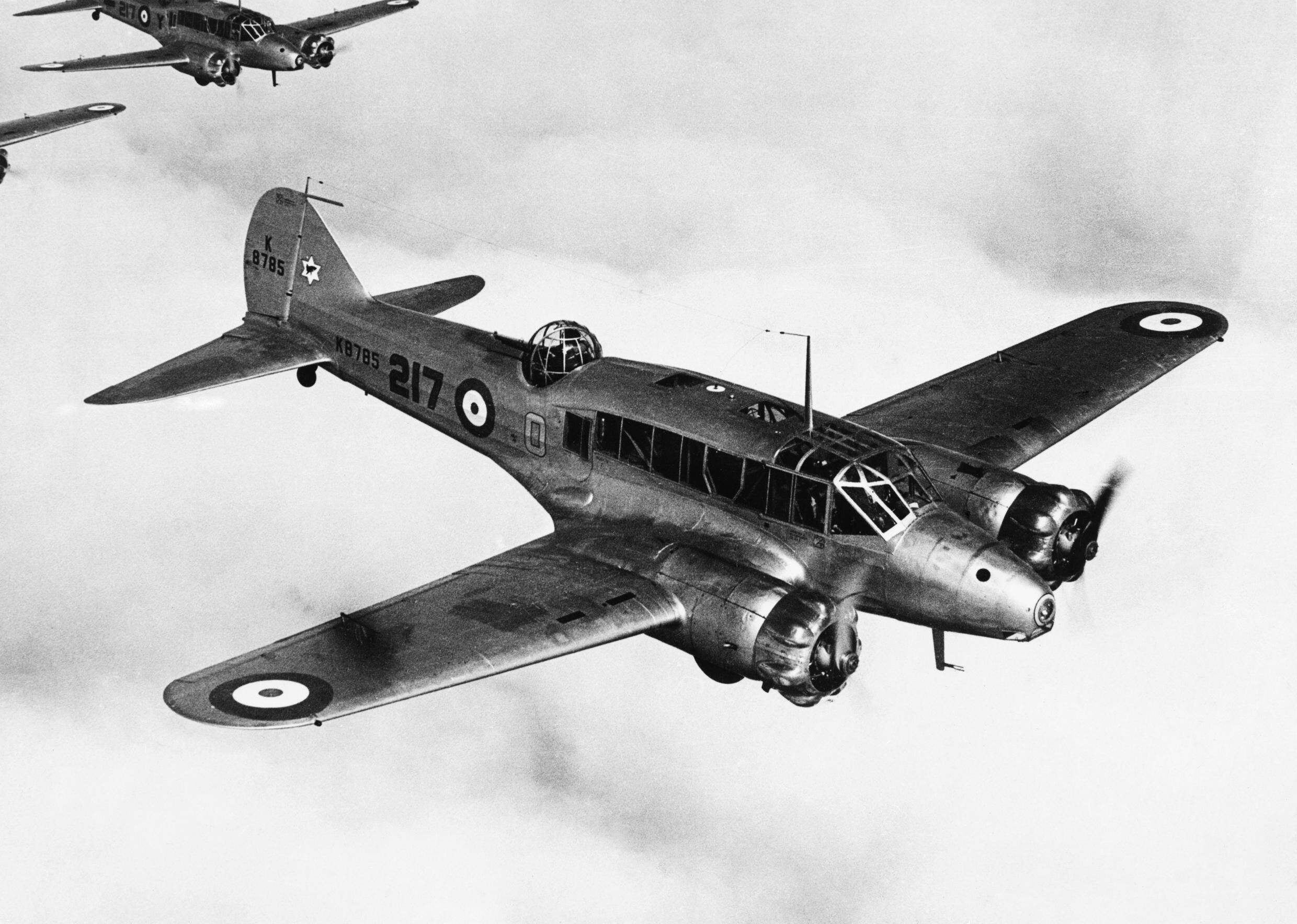 Royal Air Force 1939-1945- Coastal Command Avro Anson Mark 1 K8785 of No.217 Squadron, in flight with other aircraft, 1937.